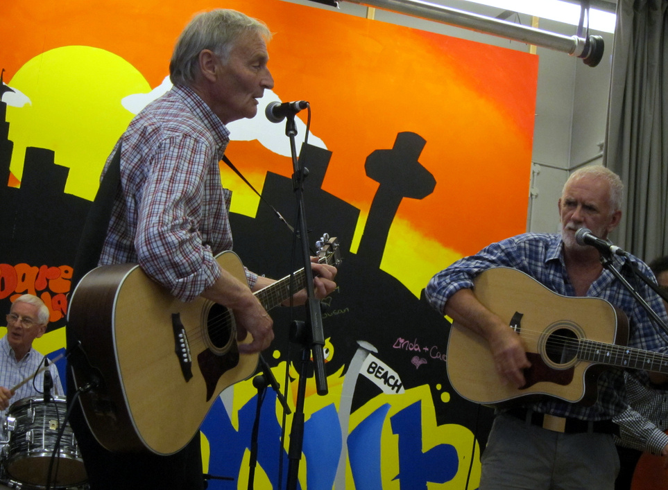 The Quarrymen. Left to right: Colin Hanton, Len Garry, Rod Davis performing in Liverpool.